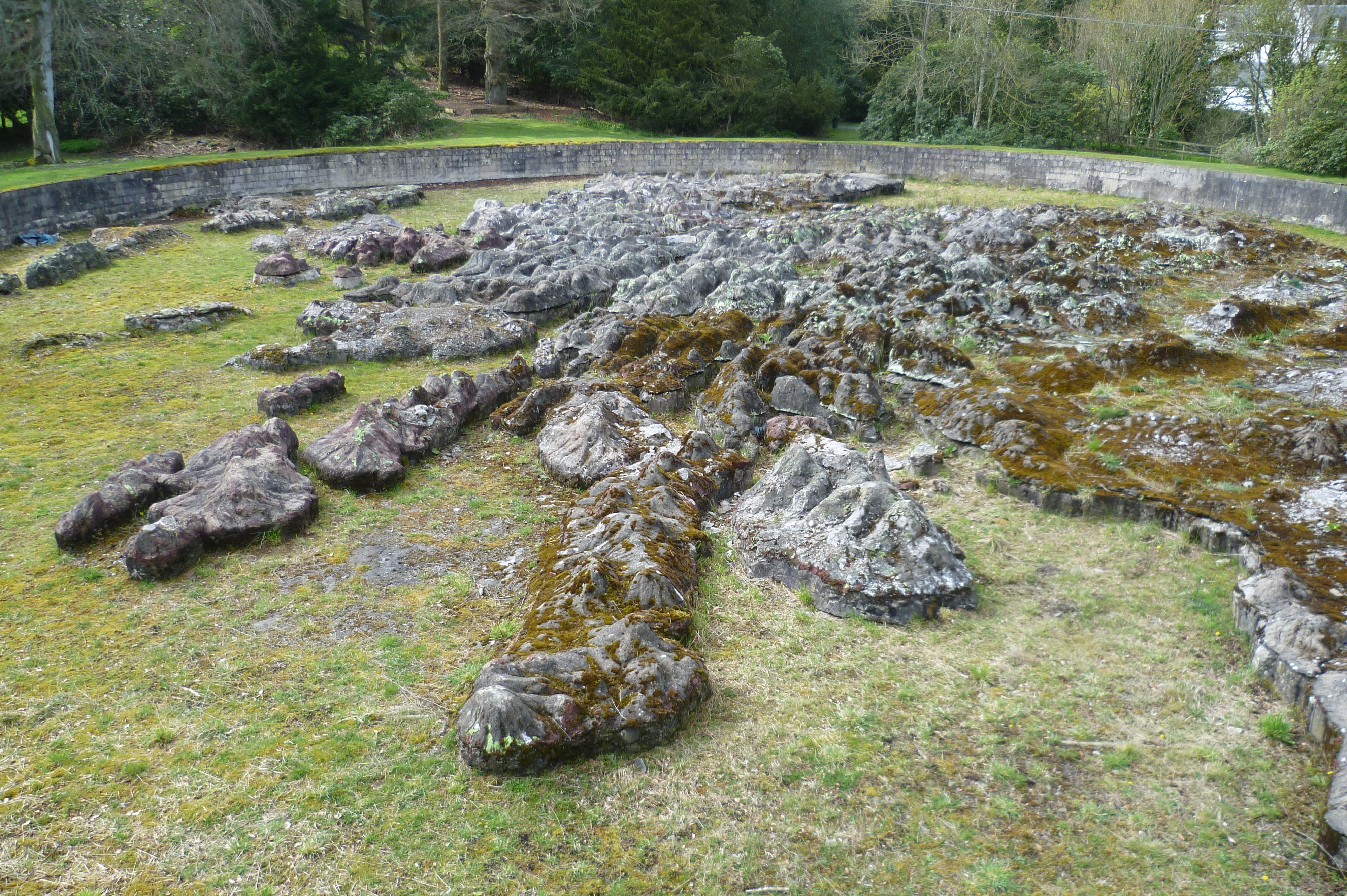 West Coast of Scotland, Barony Castle Map, Peebleshire